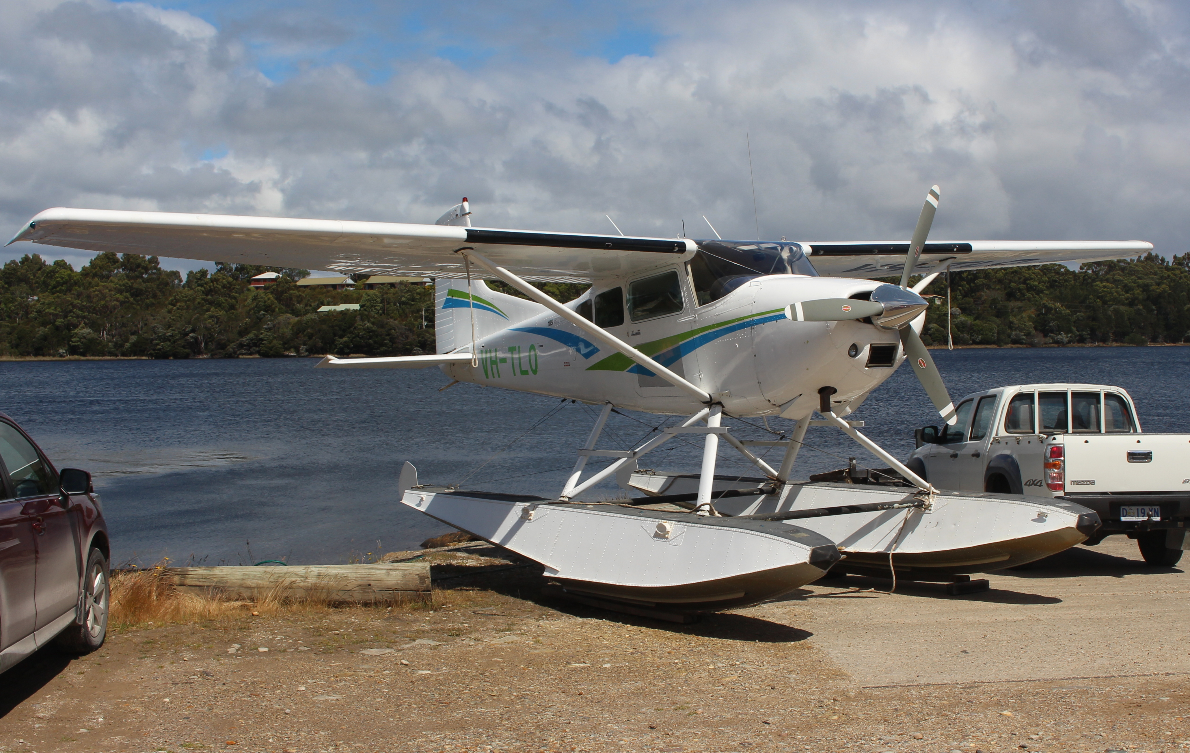 Cessna A185F Skywagon - VH-TLO. Photographed in Strahan, Tasmania